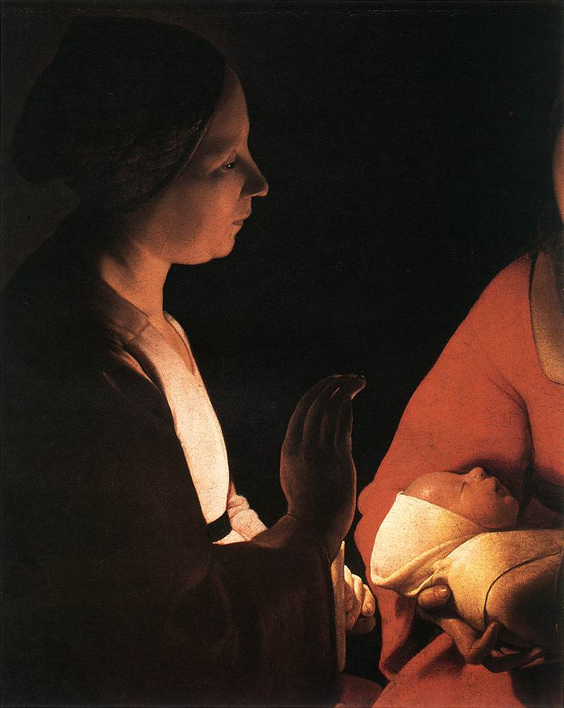 detail: the child's head